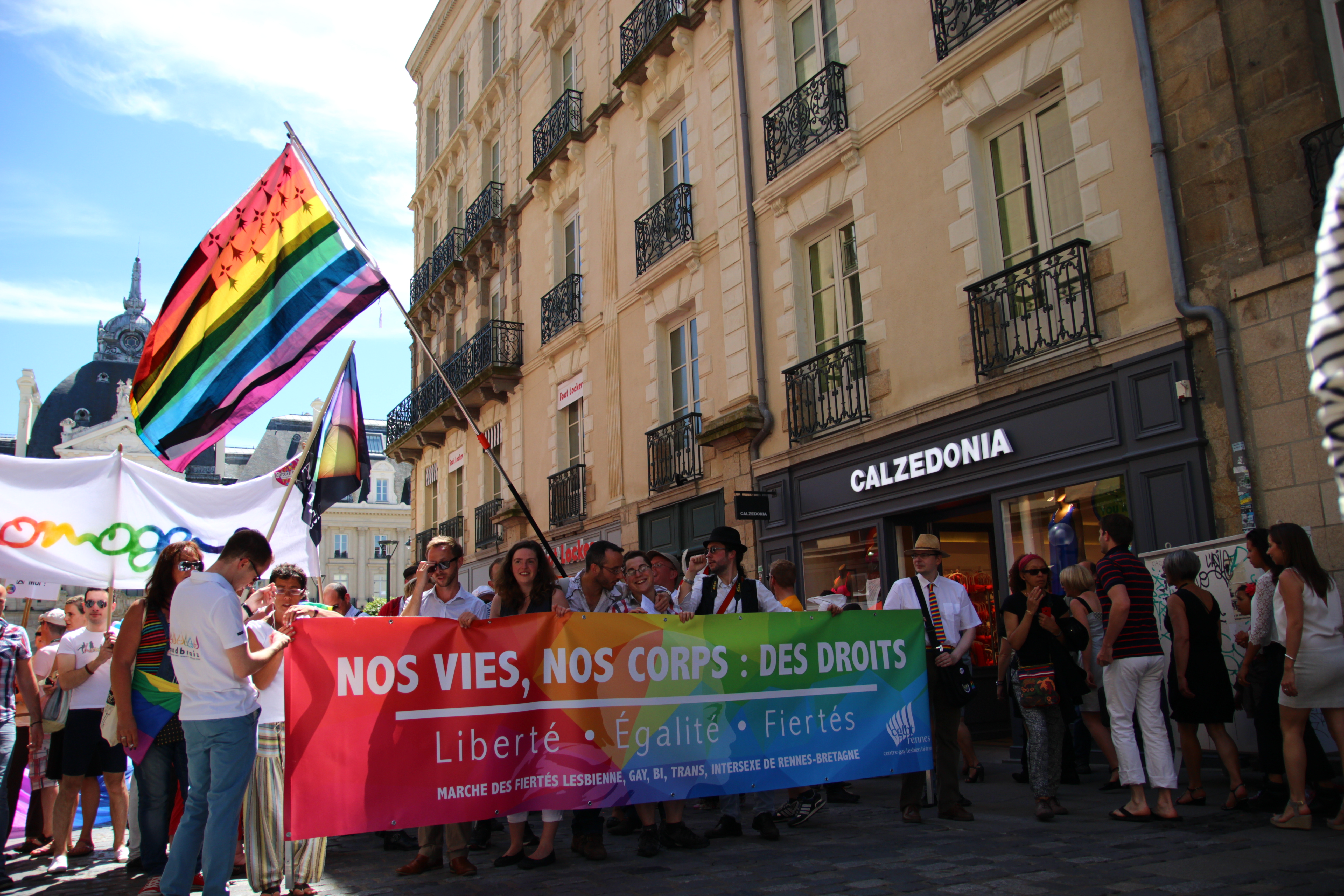 1000 vues et + Pride Marche des fiertés - Rennes 2014